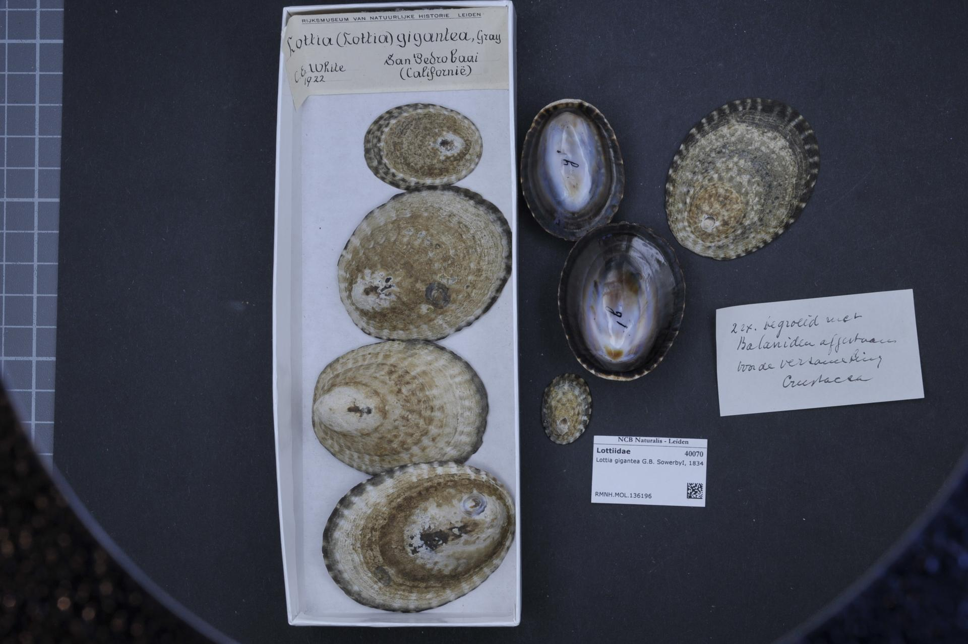 Lottia gigantea G.B. SowerbyI, 1834